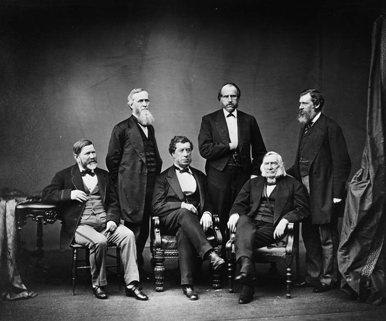 The American High Commissioners and American Commission to the Treaty of Washington of en:1871. Washington, D.C., en:1871. L. to R.: Robert C. Schenck, Ebenezer R. Hoar, George H. Williams, Hamilton Fish, Samuel Nelson, J.C. Bancroft Davis